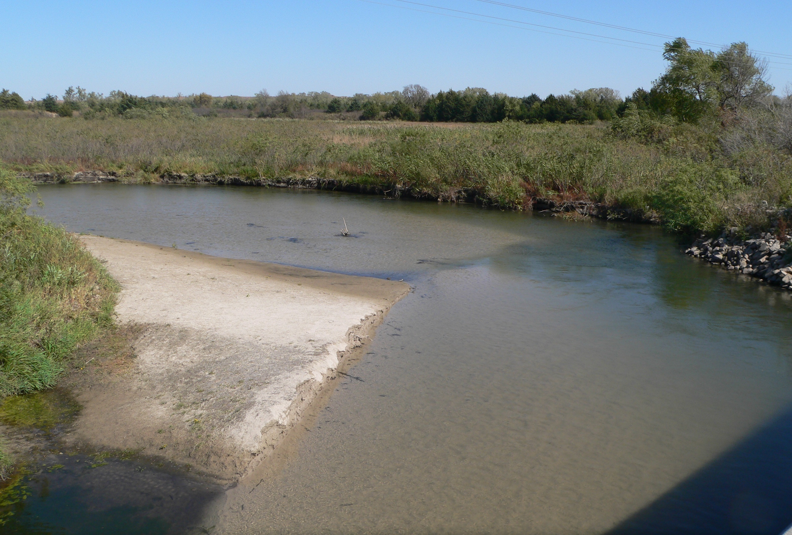 Cedar River in Wheeler County, Nebraska: looking upstream (northwest) from Nebraska Highway 70/Nebraska Highway 91 crossing west of Ericson.